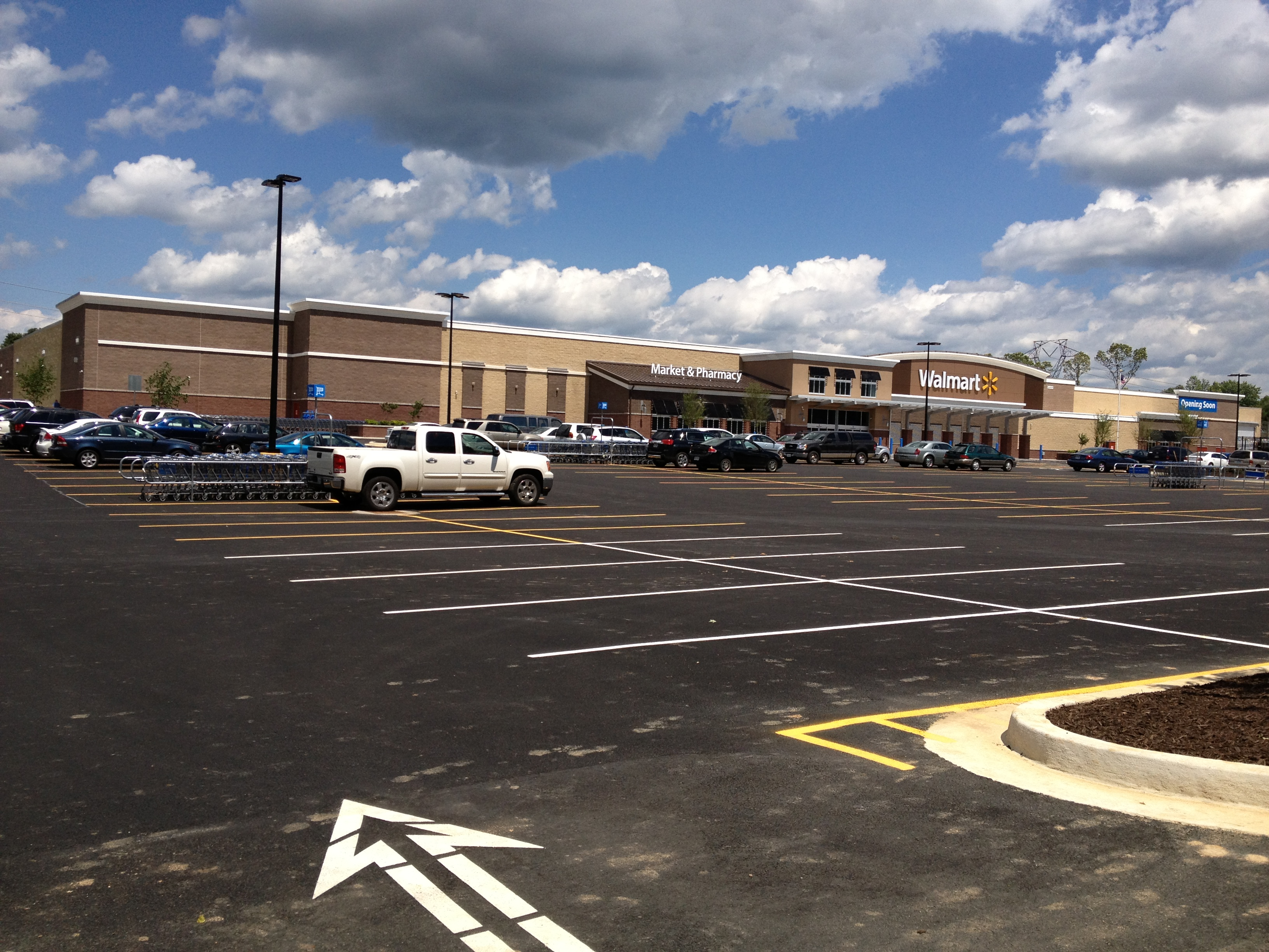 The Germanna Walmart in Locust Grove, VA just prior to opening on July 10, 2013